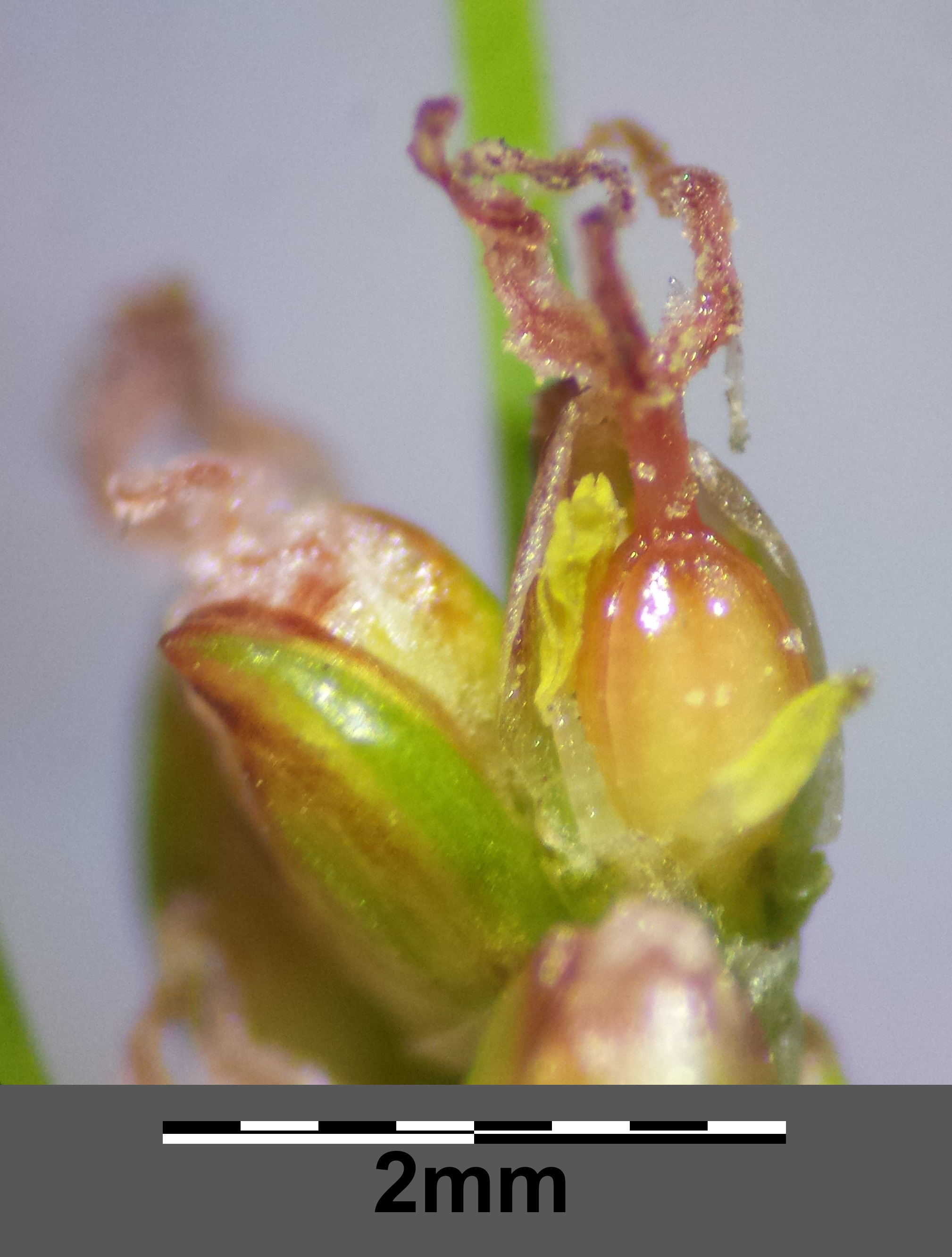 Opened flower with anthers and ovary with stylus Taxonym: Juncus compressus ss Fischer et al. EfÖLS 2008 ISBN 978-3-85474-187-9 Location: retention space in between Steinabrunn and Großmugl, district Korneuburg, Lower Austria - 230 m a.s.l. Habitat: wet loamy ground